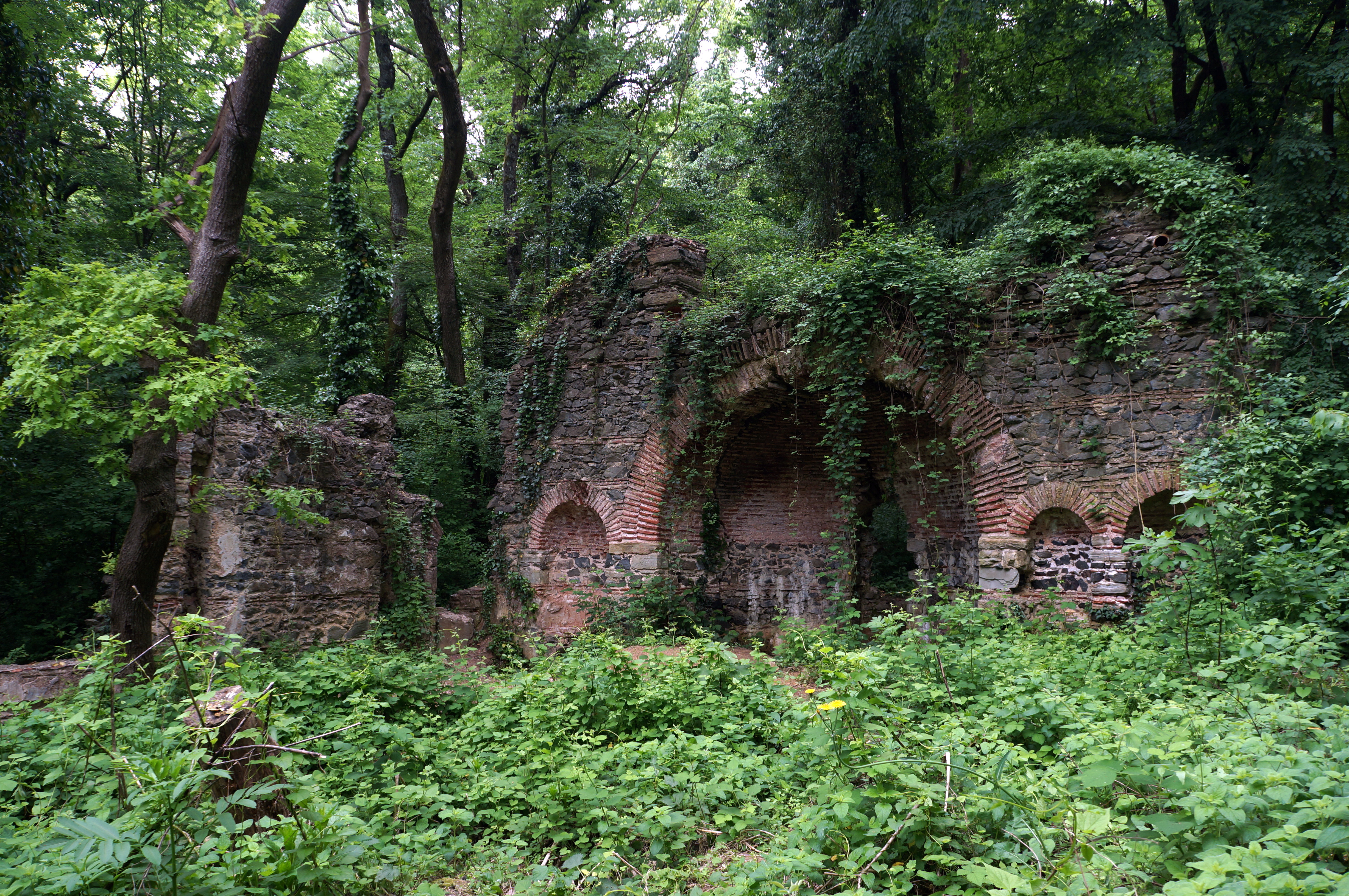 The ruins of St. George's Church, Belgrade Forest, Istanbul, Turkey